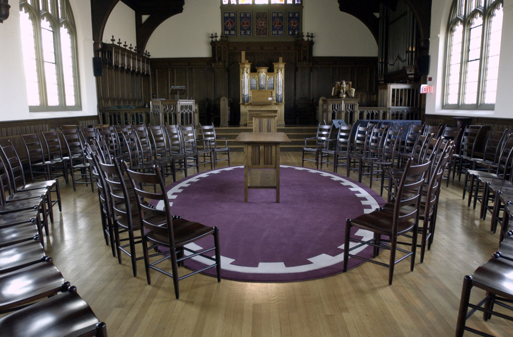 I am the author of this image.